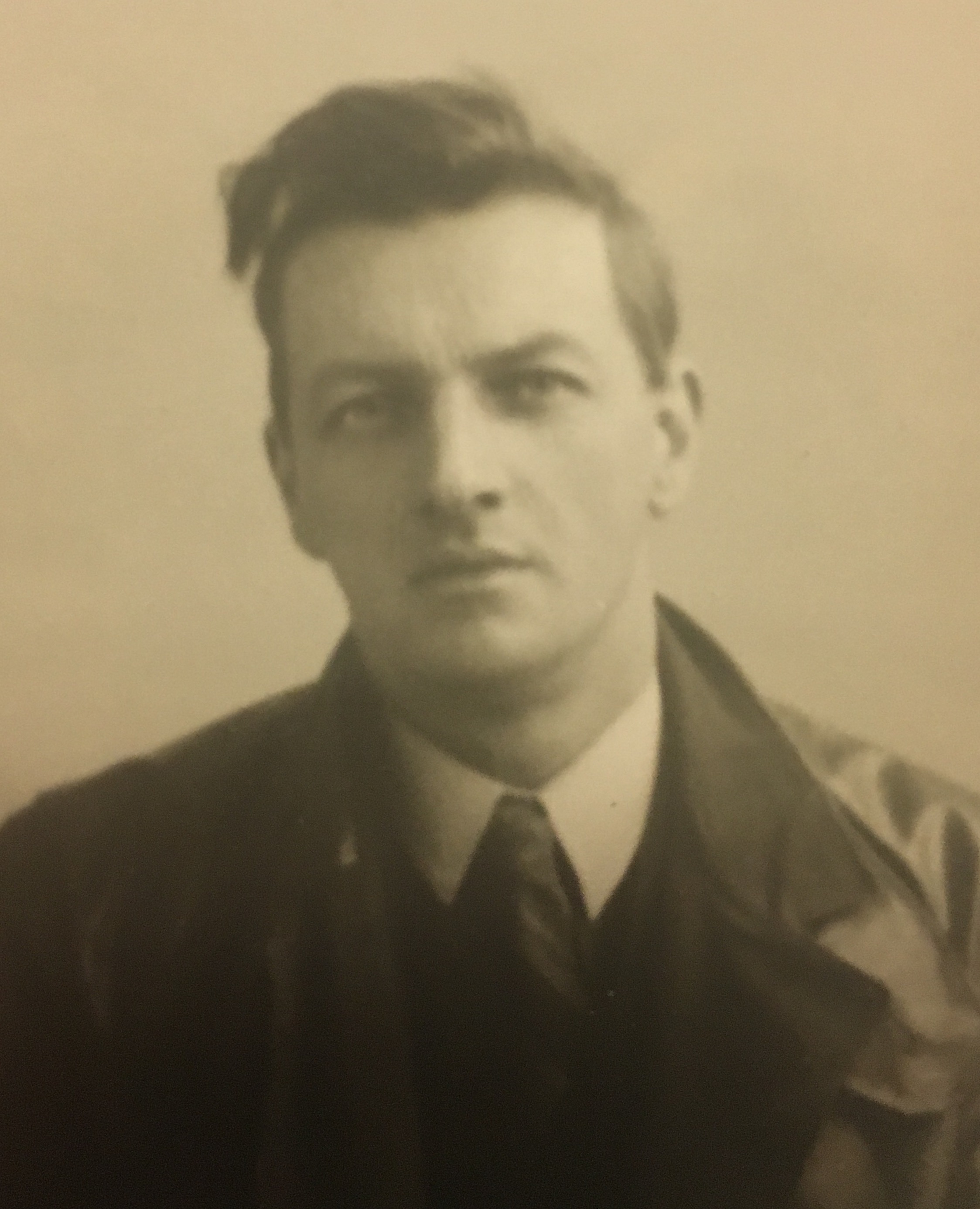 Photo